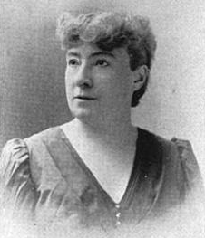 Portrait of Agnes Booth, actress